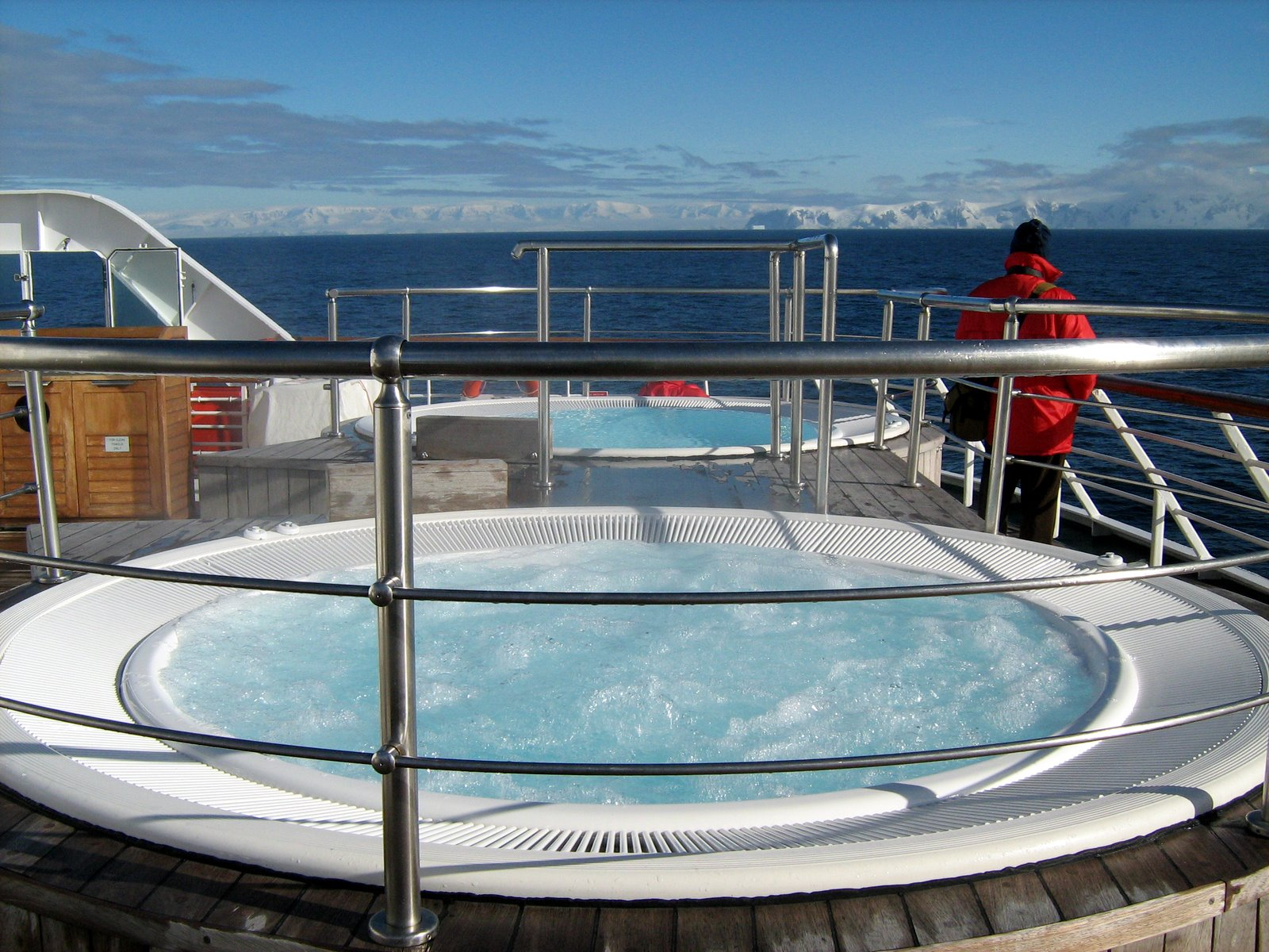 Jacuzzi, MV Discovery